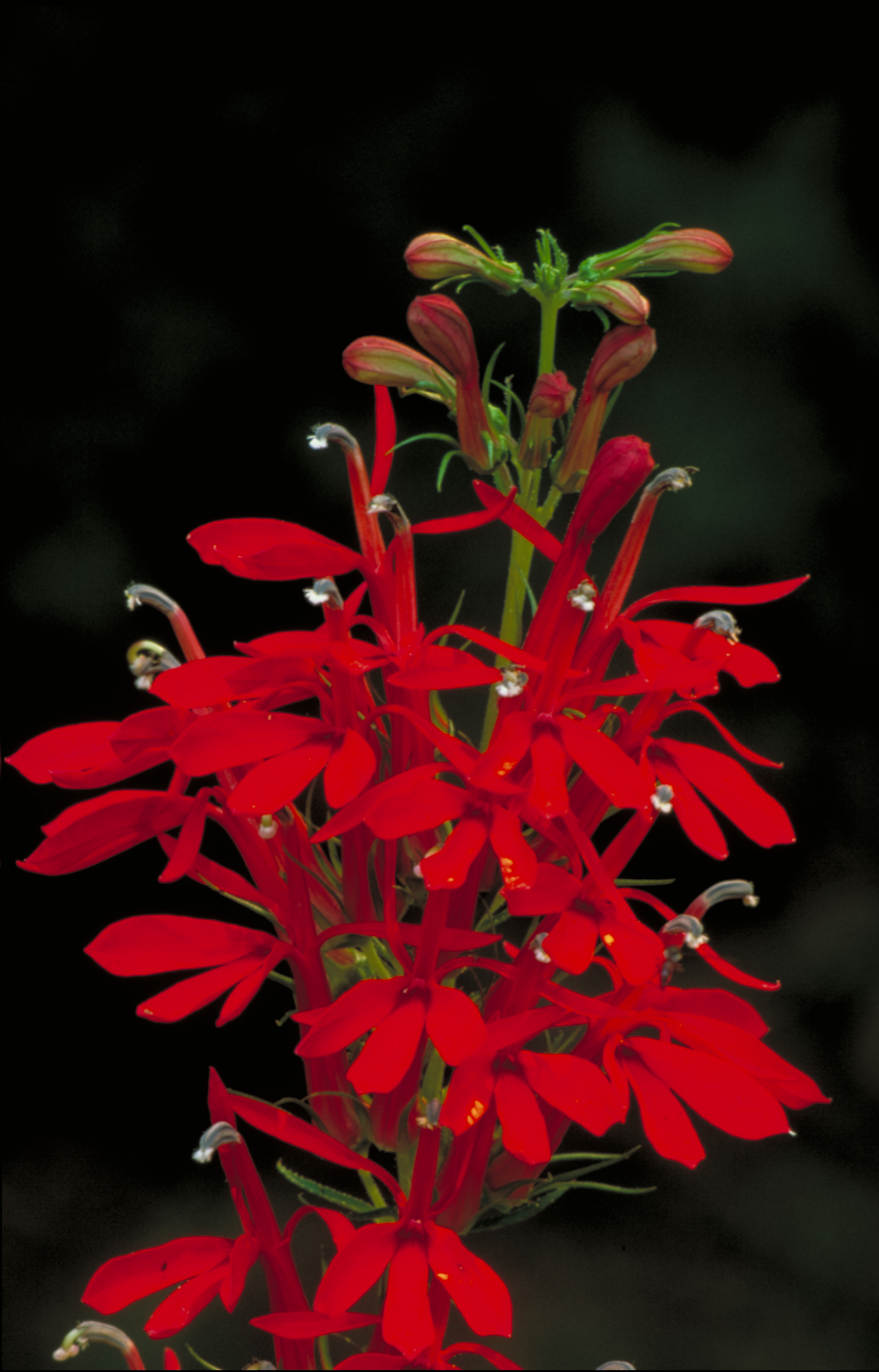 Cardinal Flower (Lobelia cardinalis).